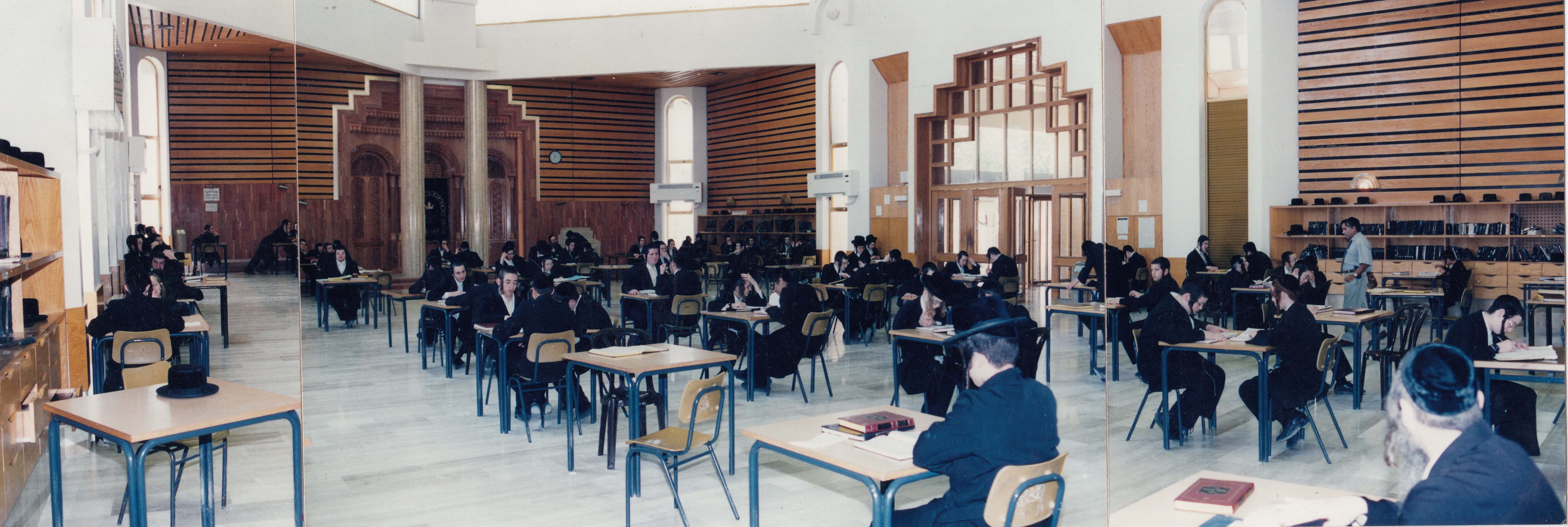 Sanz yeshiva